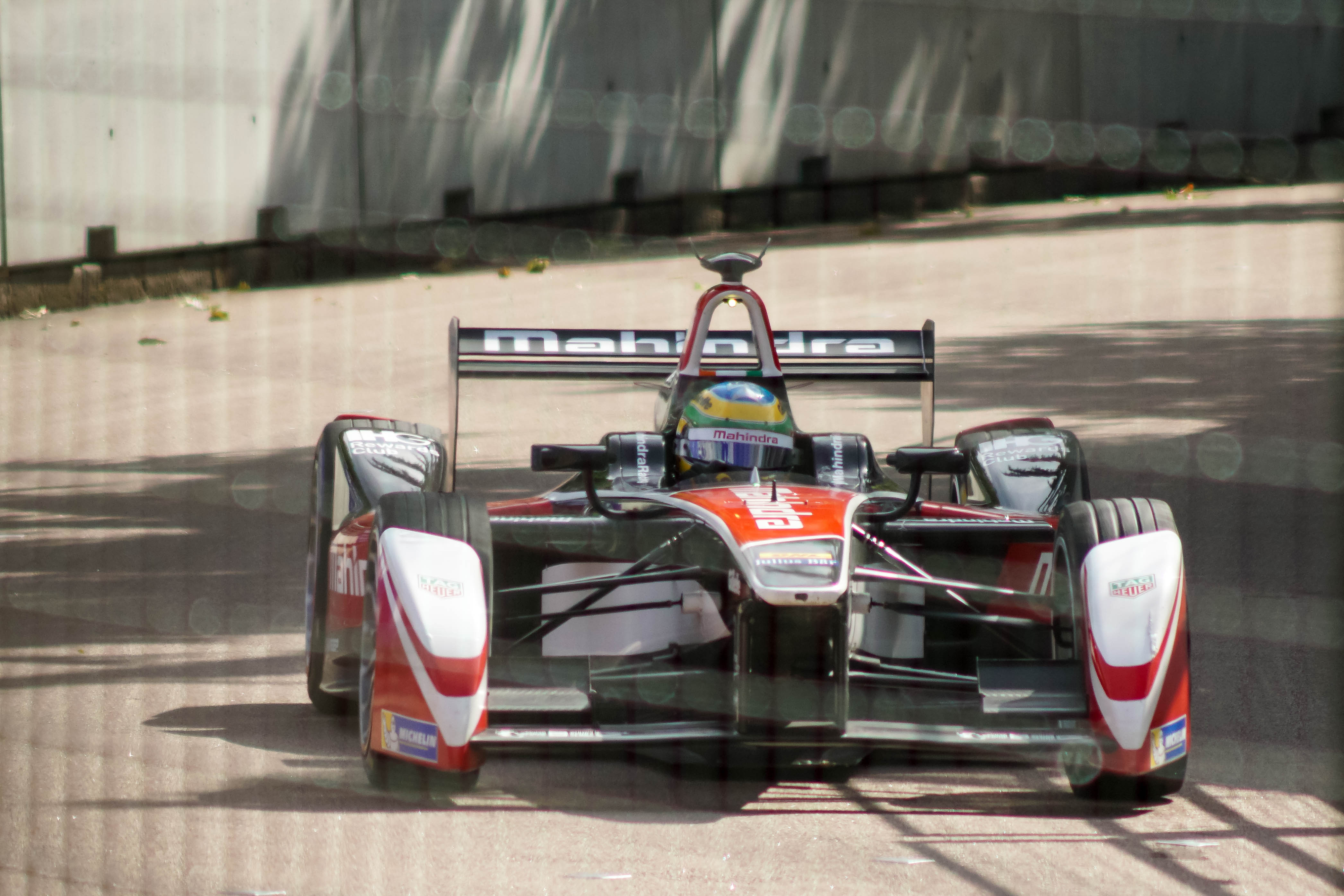 2015 London ePrix (Battersea Park), Bruno Senna (Mahindra Racing Team).